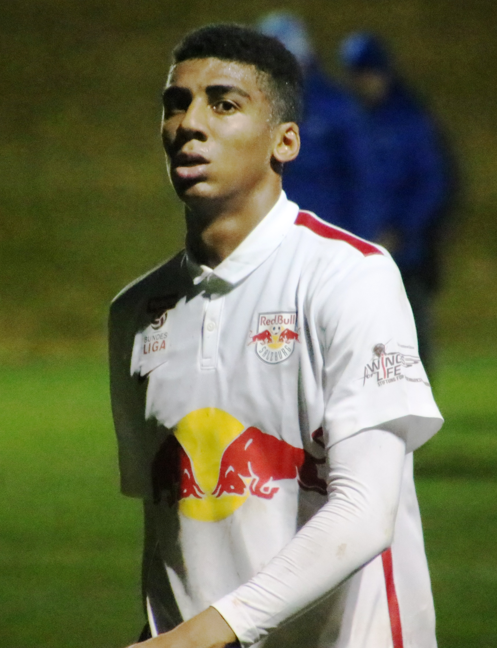 friendly match preseason